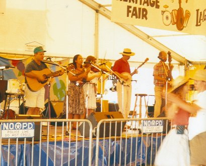 Hazel & The Delta Ramblers, Old time country & bluegrass band, at New Orleans Jazz & Heritage Festival. Photo by Infrogmation